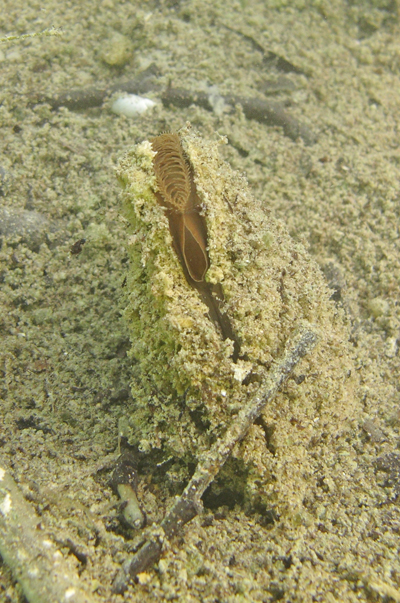 Anodonta anatina, Mindelsee, Germany